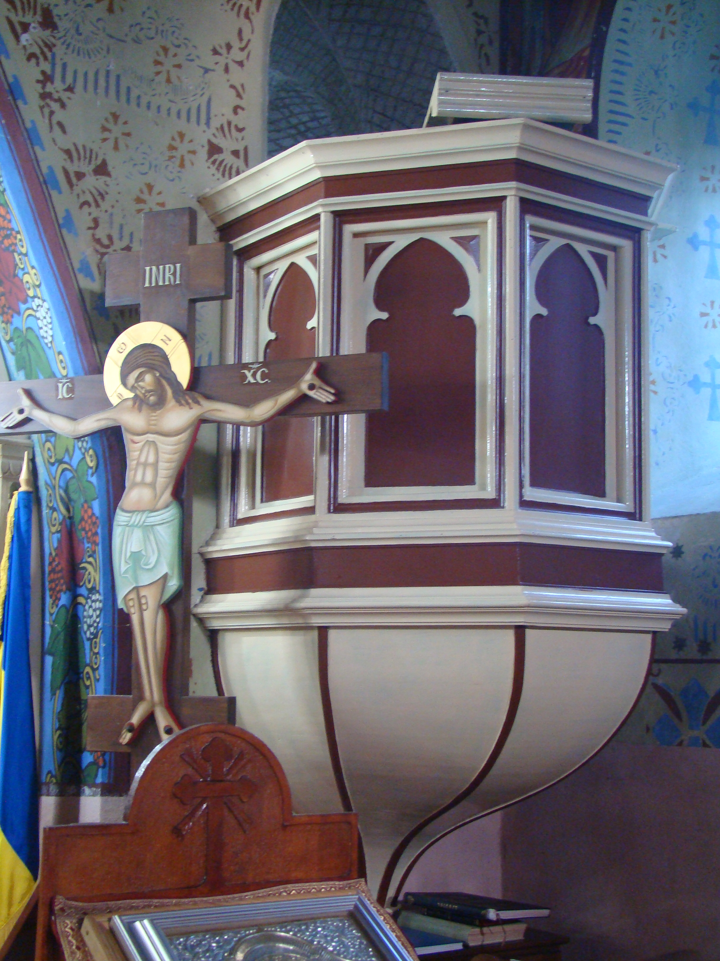 Church of the Annunciation in Cepari, Bistrița-Năsăud county, Romania